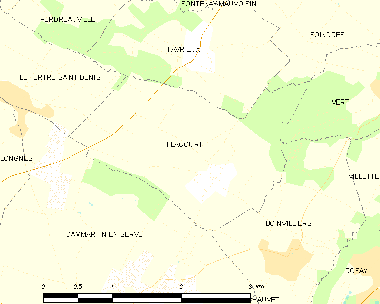 Map of French municipality Flacourt